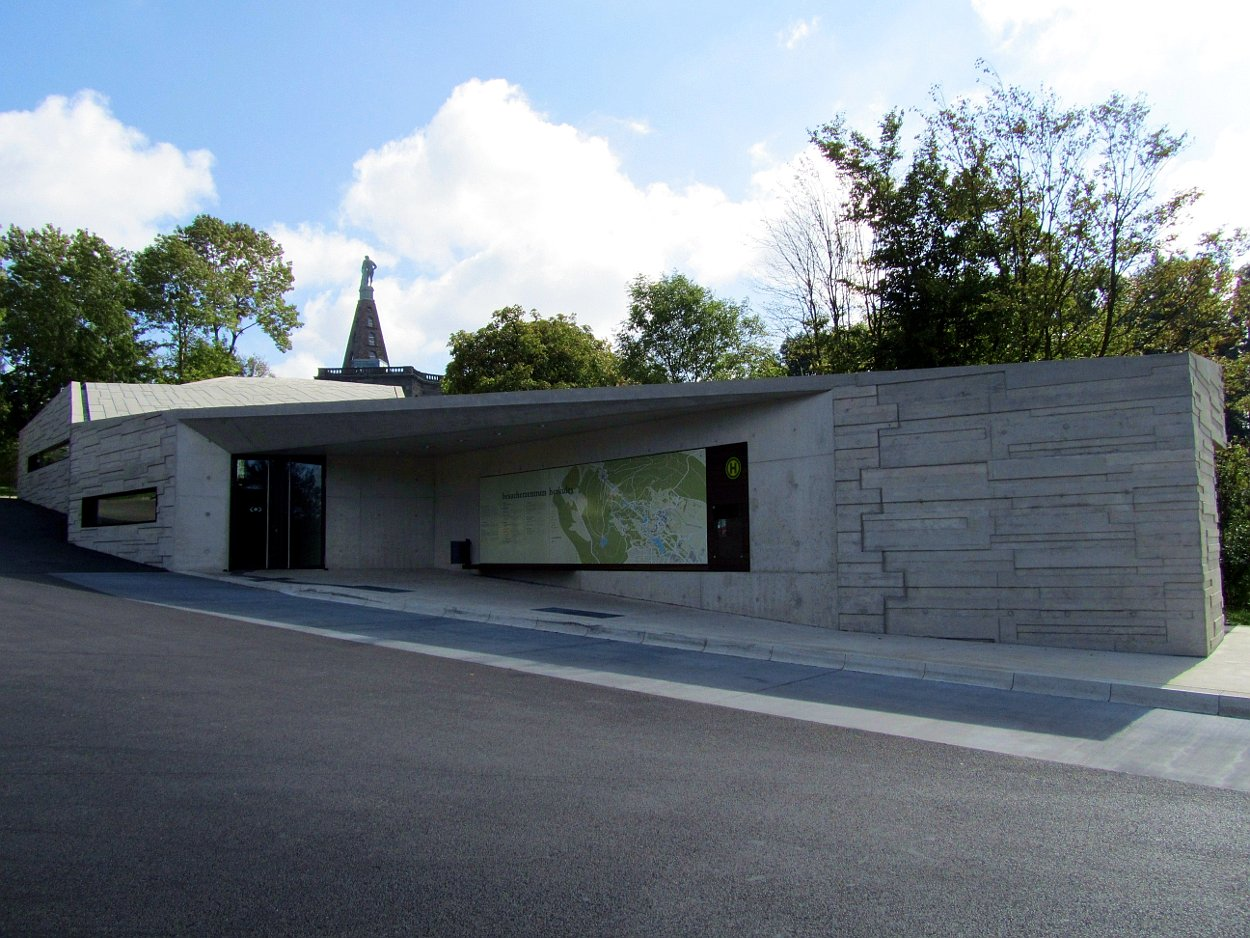 Germany / Cassel: Mountain Park Wilhelmshöhe: Visitor Information near Herkules